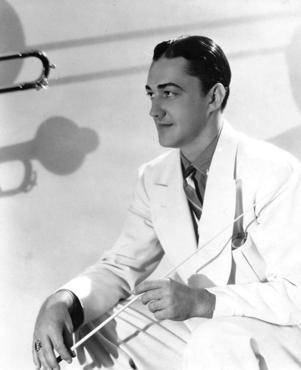 Photo of musician Seger Ellis. Note the uploaded photo is larger and of better quality than the newsprint copy. Renewals were checked in both periodicals and artwork for the years 1965 and 1966. There were no listings for the Longview News Journal or for Frederick Brothers; there's nno evidence of current copyright.